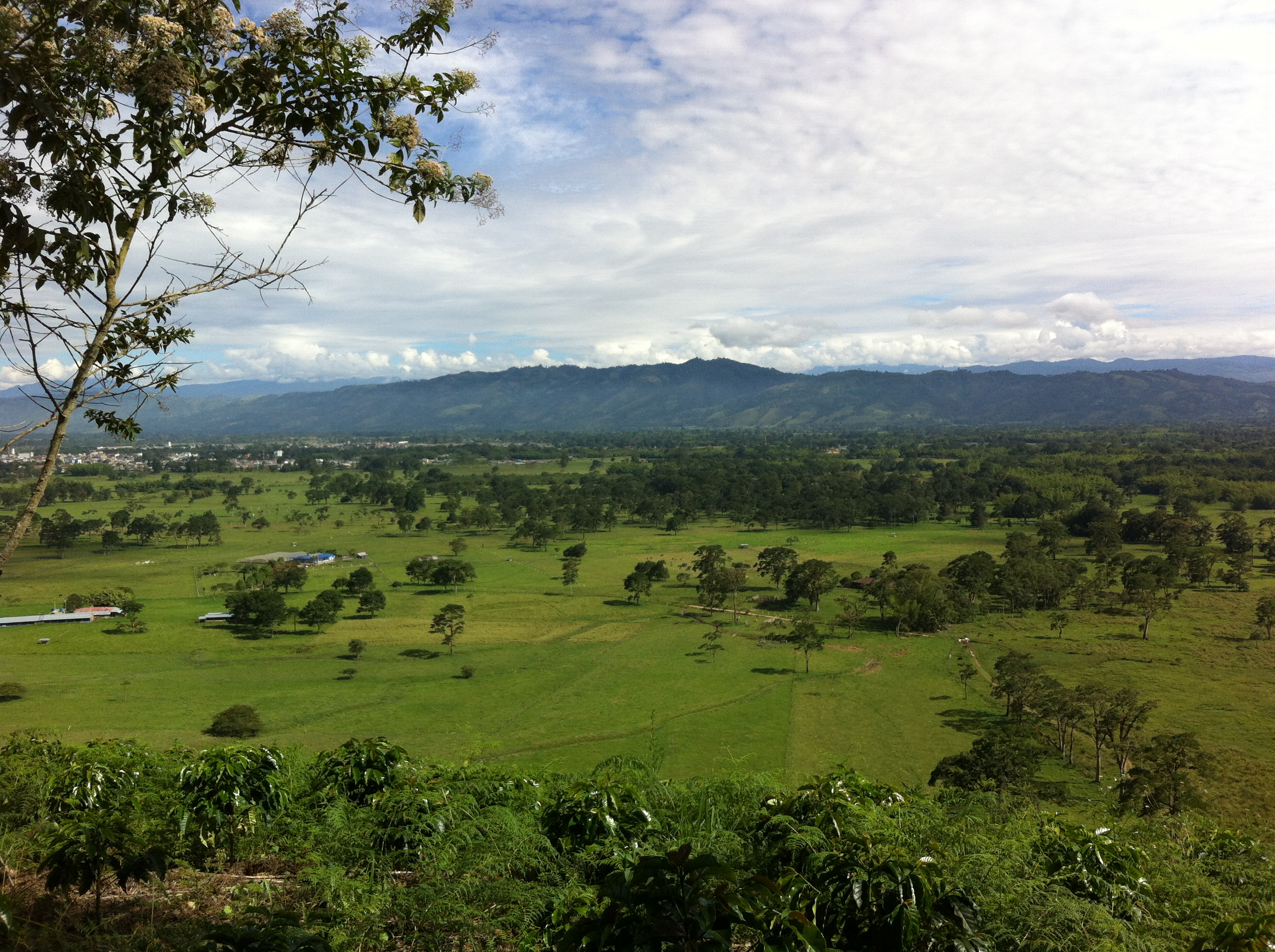 The Laboyos's Valley in Pitalito, Huila, Colombia